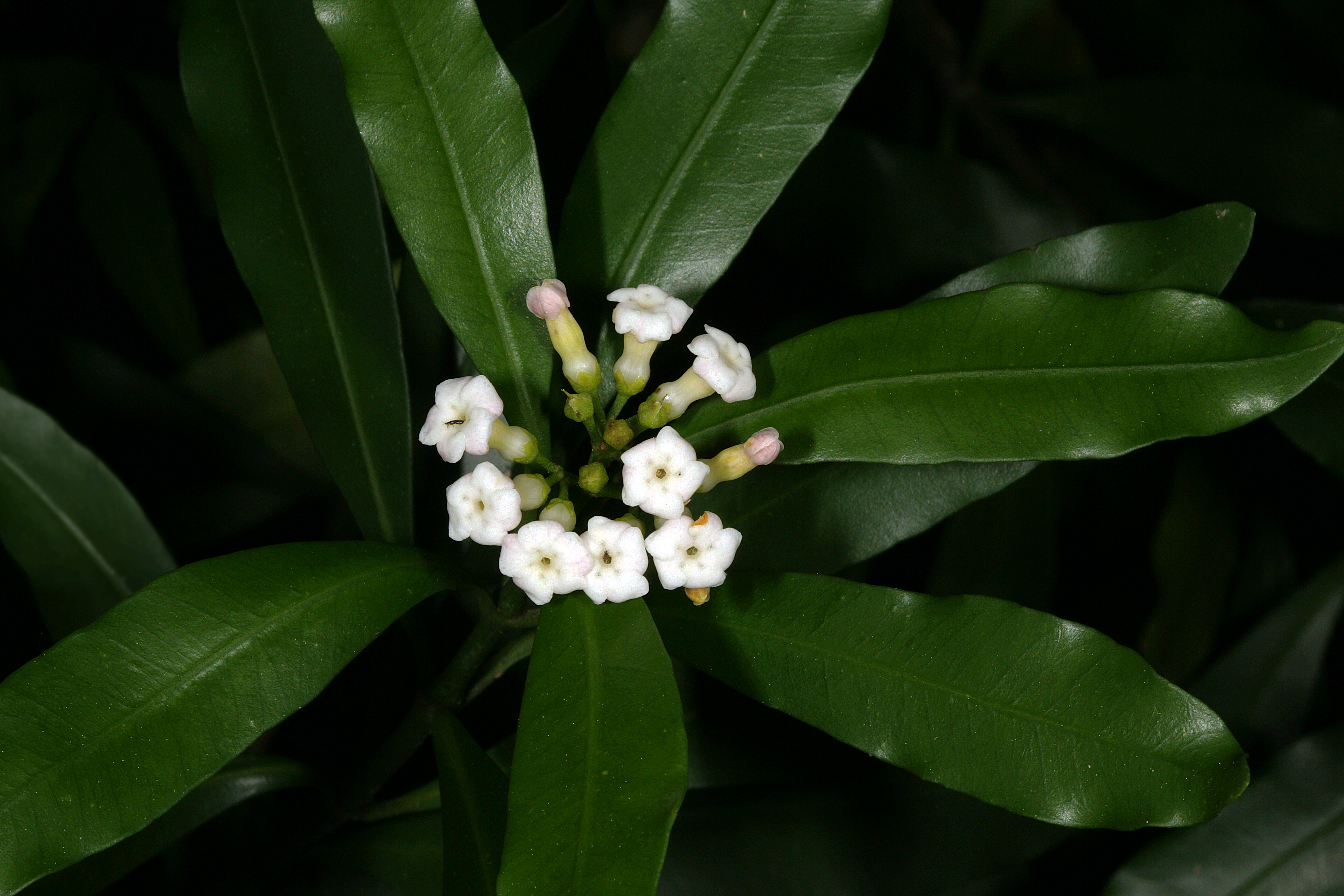 Gonioma kamassi, flowers; Kirstenbosch National Botanical Garden, Cape Town, Western Cape, South Africa